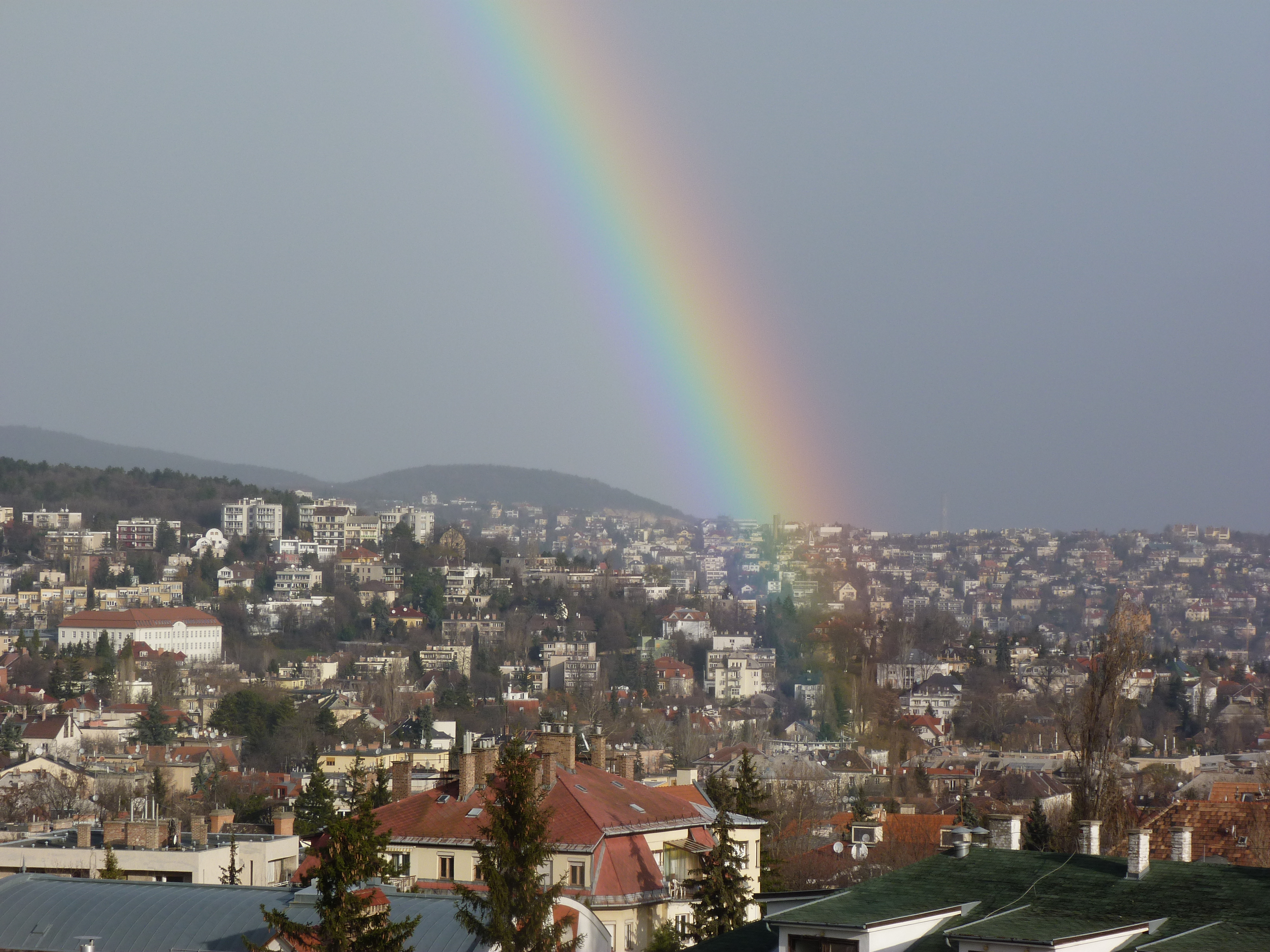 Live on the 9th of December, 2013. Buda hills, Budapest, Hungary. Here we see a rainbow as photographed from Sashegy, elevation Nr.3. It had happened when the sun highlighted the foggy backround over Buda. Produced by sunlight shining through atmospheric ice crystals. If there is moisture in the air, sunlight may hit water droplets as it enters the atmosphere. When this happens, the light enters the water drop and becomes refracted, meaning that its course is slightly altered. The degree to which the course is altered depends on the light's wavelength. Since sunshine contains all the wavelengths (and, therefore, all colors), when it hits the water drop, each wavelength is refracted at a slightly different angle causing the colors to fan out slightly. The waves continue through the drop until they hit the far side where they are reflected. While refraction diverts the light, reflection bounces it back, sending it in the same general direction from which it came. The waves pass back through the front side of the droplet where they are refracted again, spreading the colors further before they pass back out into the sky. Sources: ©© Derzsi Elekes Andor, Budapest, 2013, You are authorised to use these photos and vids under Creative Commons – even for commercial, for profit purposes. Photos must be attributed to Derzsi Elekes Andor. All of the photos and vids in the Metapolisz DVD line are under Creative Commons and can be used even for commercial – for profit – purposes. Recommended Citation Derzsi Elekes Andor: Metapolisz DVD line